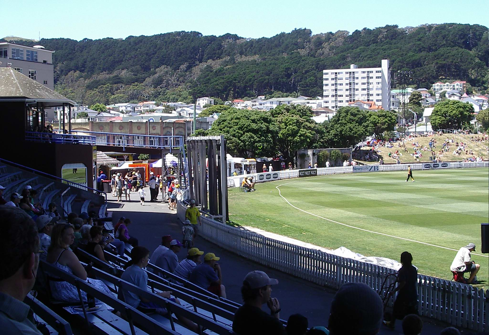 City end of the Basin Reserve during a T20 cricket match between the Wellington Firebirds and the Central Stags. The team club rooms are visible to the left.